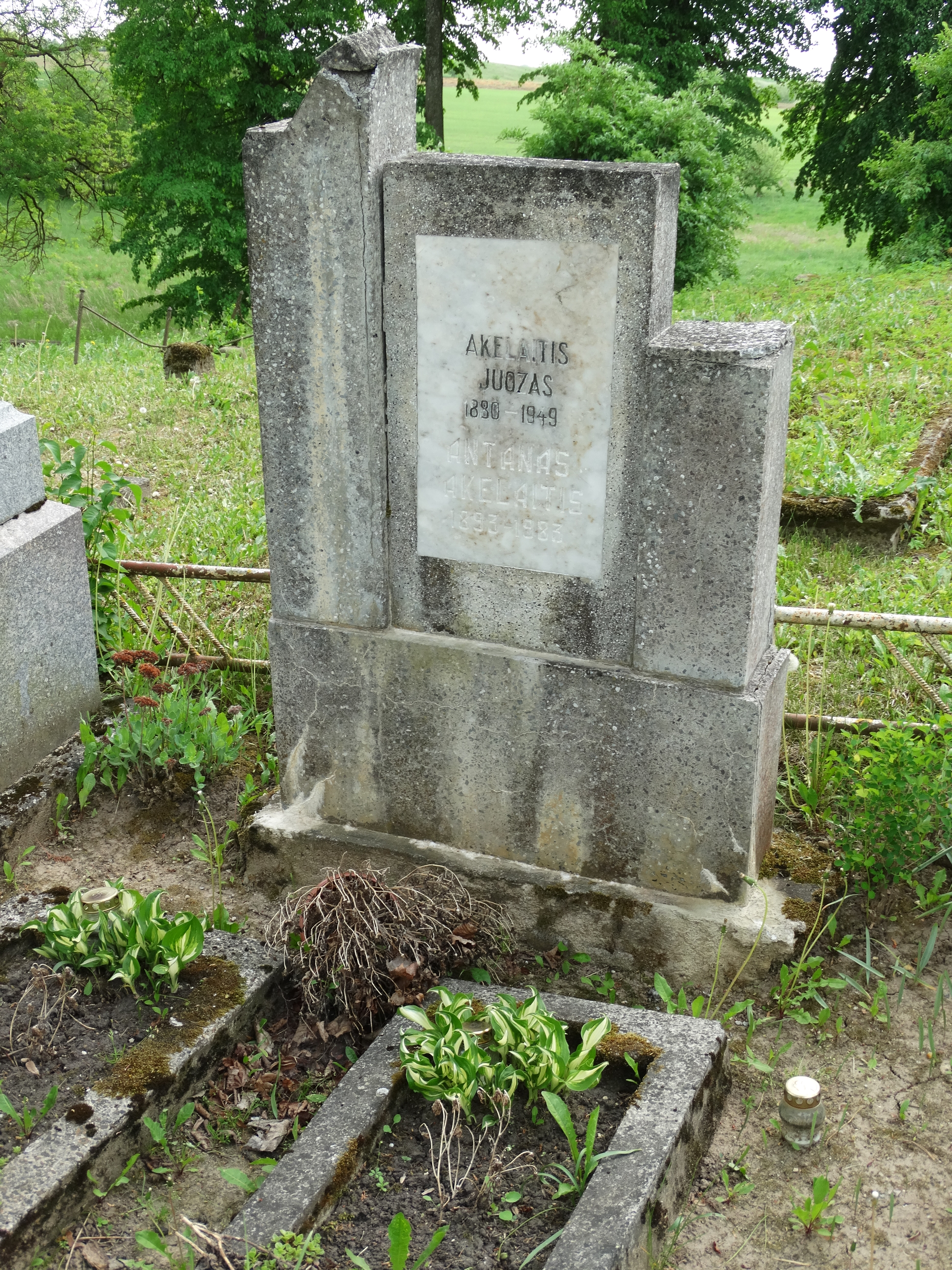 Juozas Akelaitis (1880–1949), Liudvinavas, Lithuania